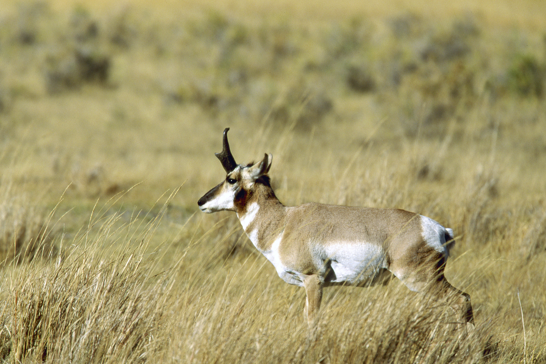 Antelope buck standing in tall grass, Beaverhead County, 2001.